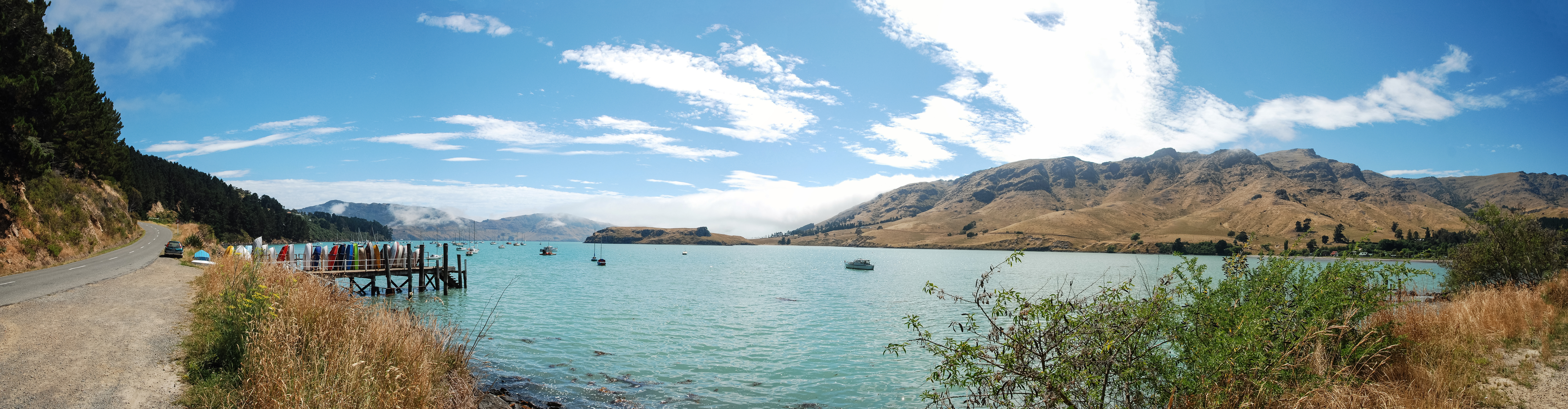 A panoramic image of Purau Bay, Canterbury